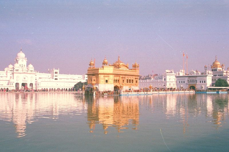 Harmandir Sahib also known as the Golden temple, Armistar IndiaGolden Temple